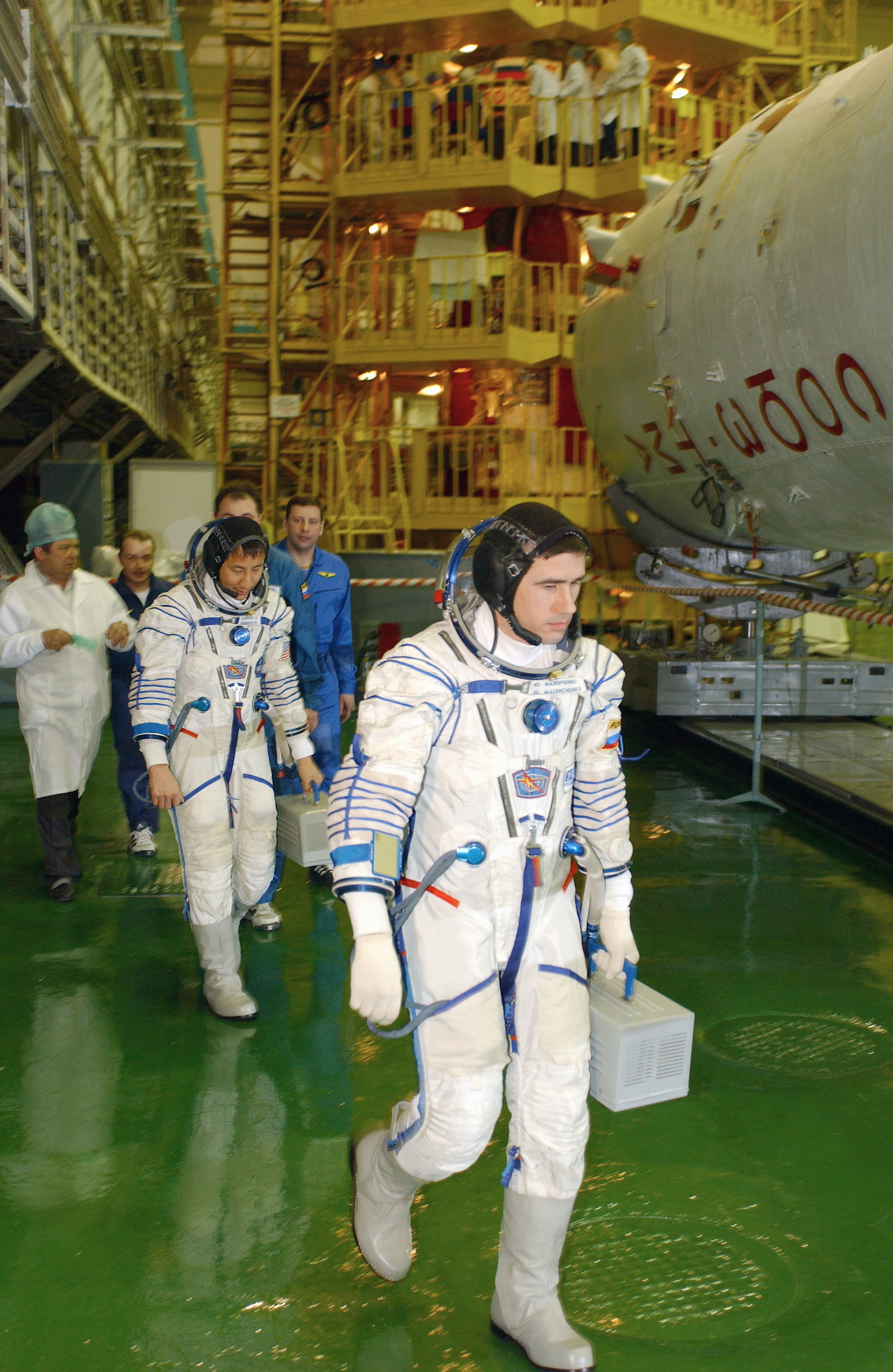 Attired in their Russian Sokol suits, cosmonaut Yuri I. Malenchenko (foreground), Expedition Seven mission commander, and astronaut Edward T. Lu, NASA ISS science officer, walk out for a Soyuz inspection and seat liner check in the Soyuz Integration Facility at the Baikonur Cosmodrome in Kazakhstan. Malenchenko represents Rosaviakosmos.